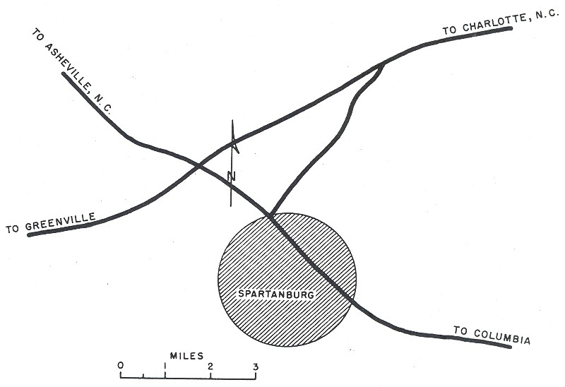 Interstates in today's terms I-26 (built further west; part of the original plan became I-585 I-85 Never-built connection